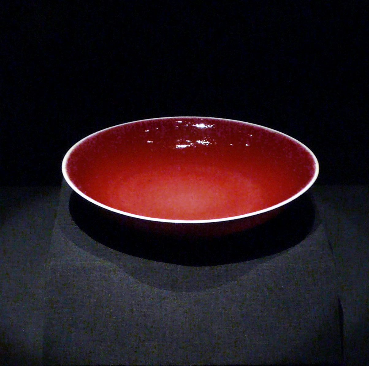 Palace Museum, Beijing. Plate with bright red glaze Yongle Reign, Ming Dynasty, 1403-1424 A.D.